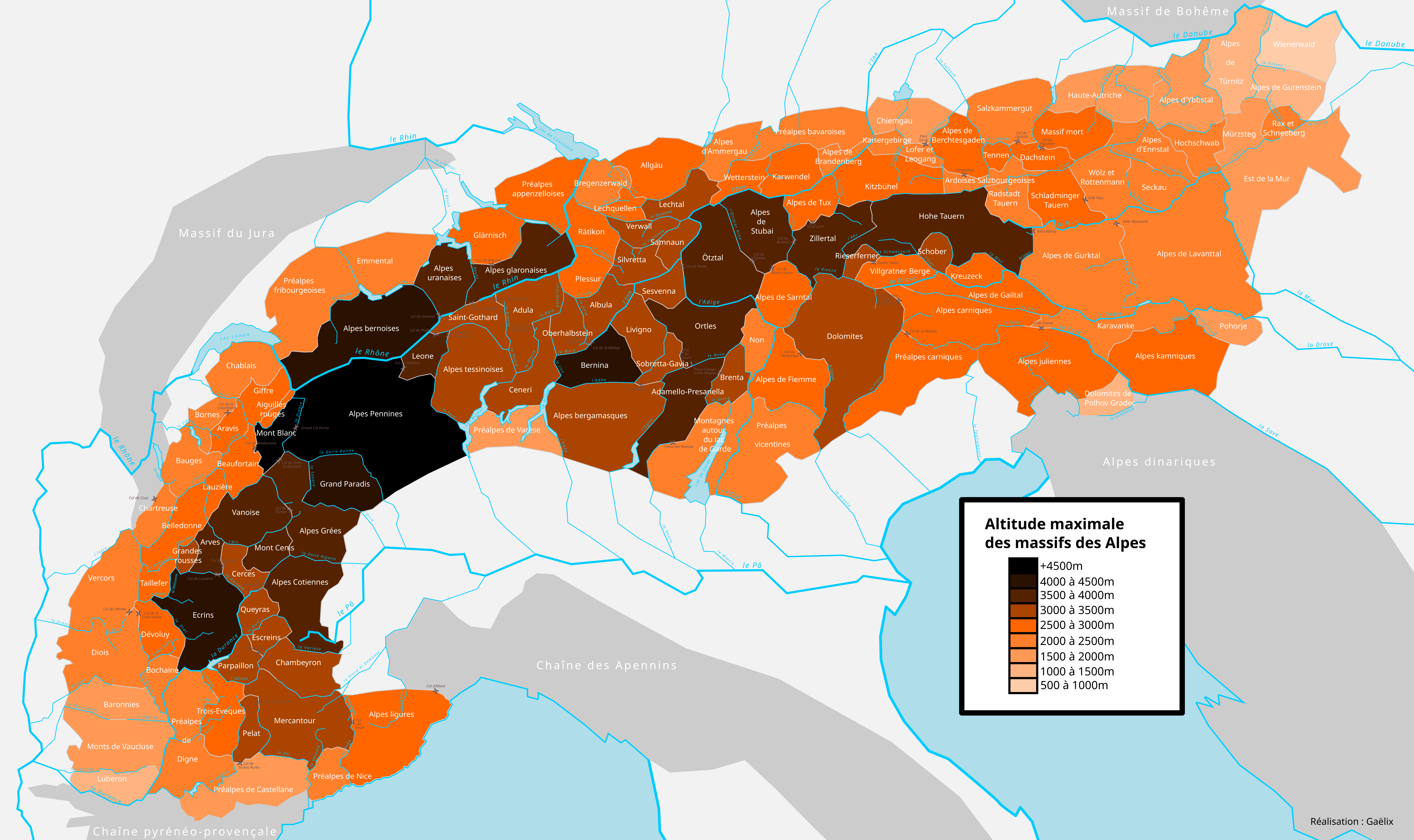 Map of the mountain groups of the Alpes